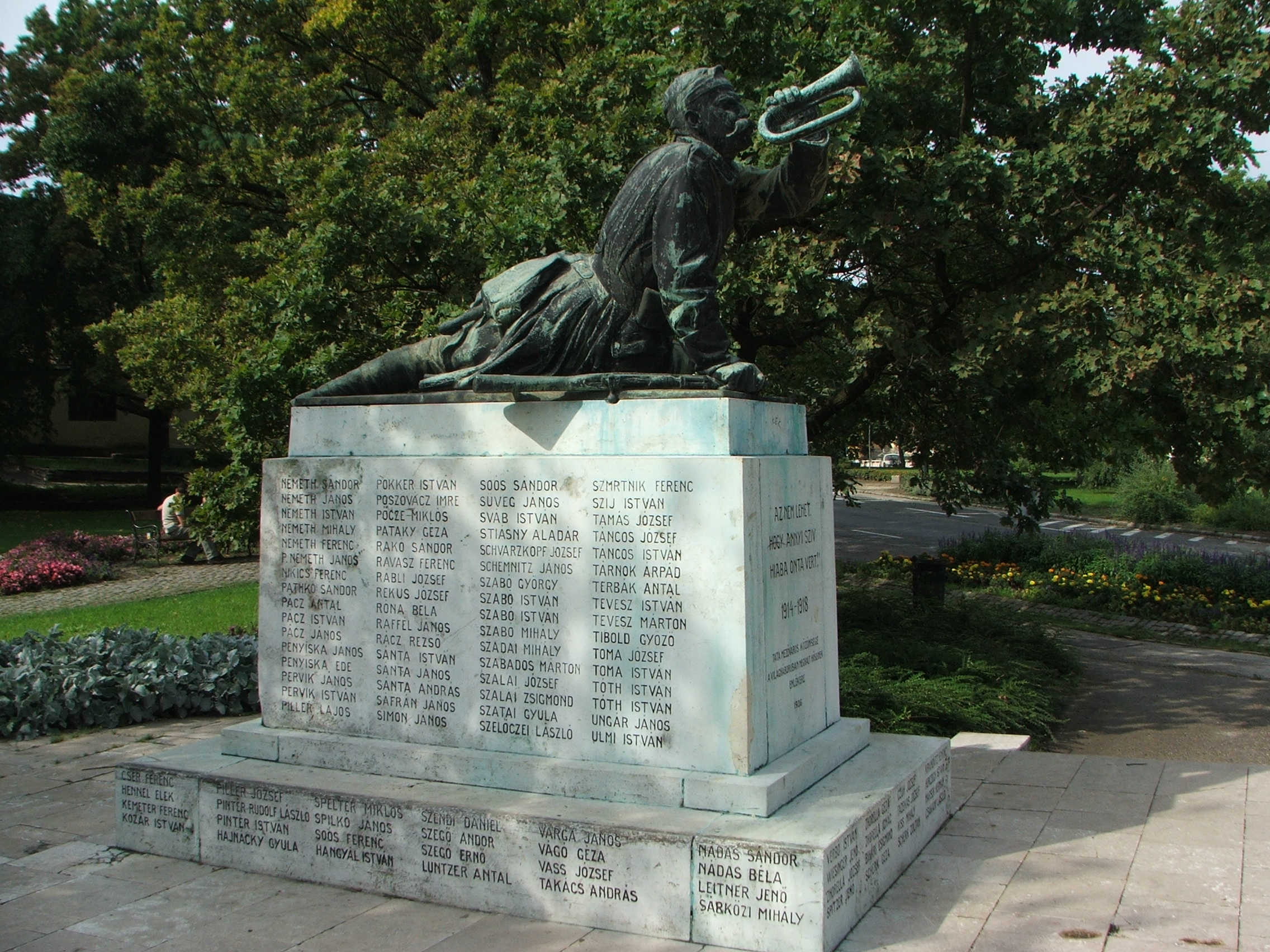 First World War Heroes' statue in Heroes' Square. Sculptor: Elemér Fülöp (1926) Photo: József Süveg (2005)